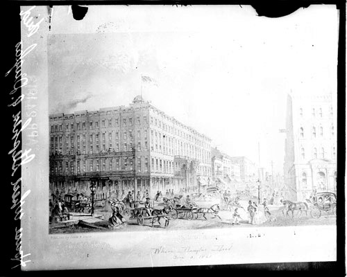 Tremont House, the hotel in downtown Chicago where Stephen Douglas died.